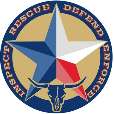 Coast Guard Air Station Corpus Christi emblem